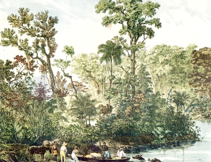 River Paraíba do Sul